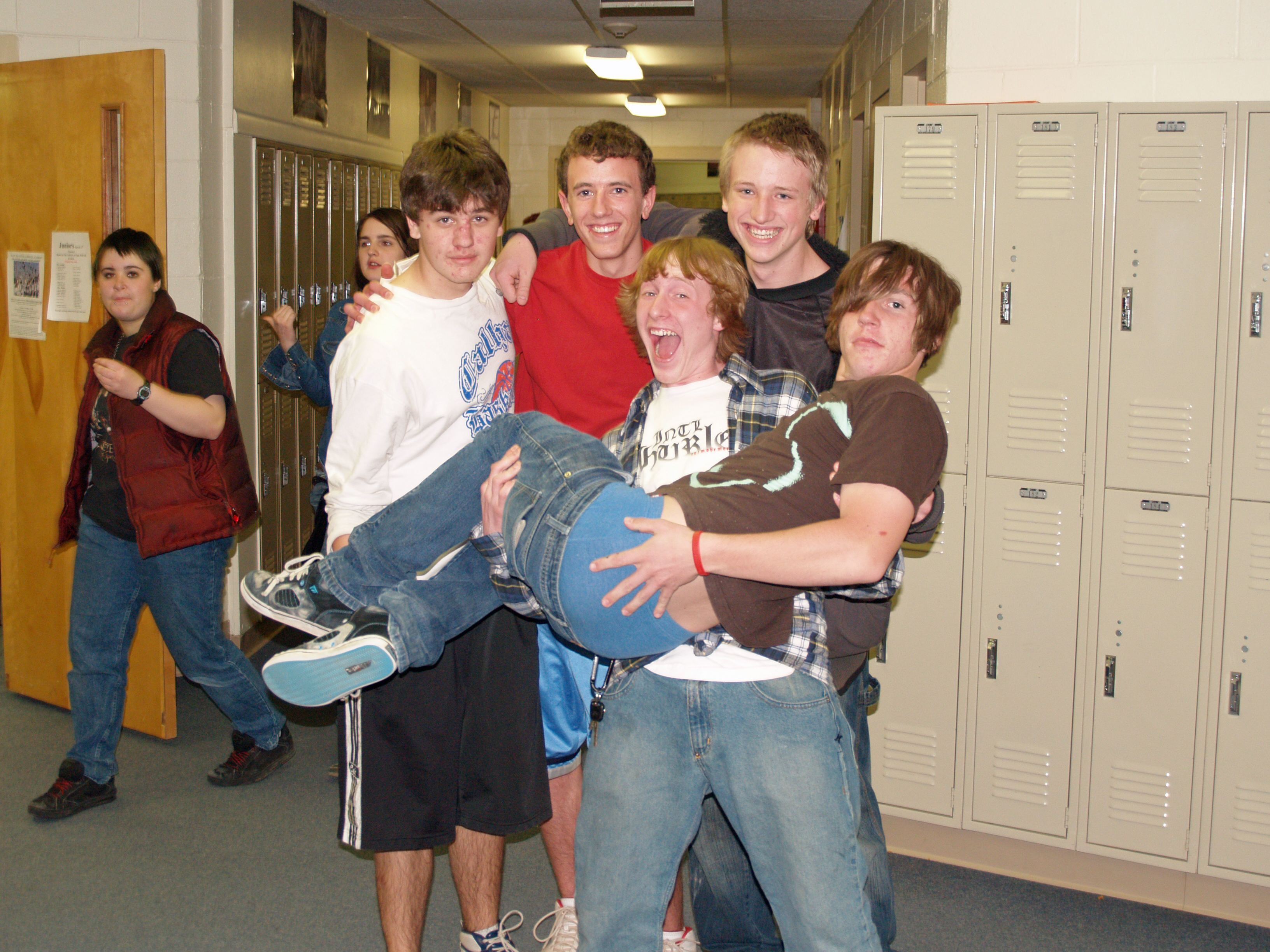 Calhan, Colorado high school senior boys.